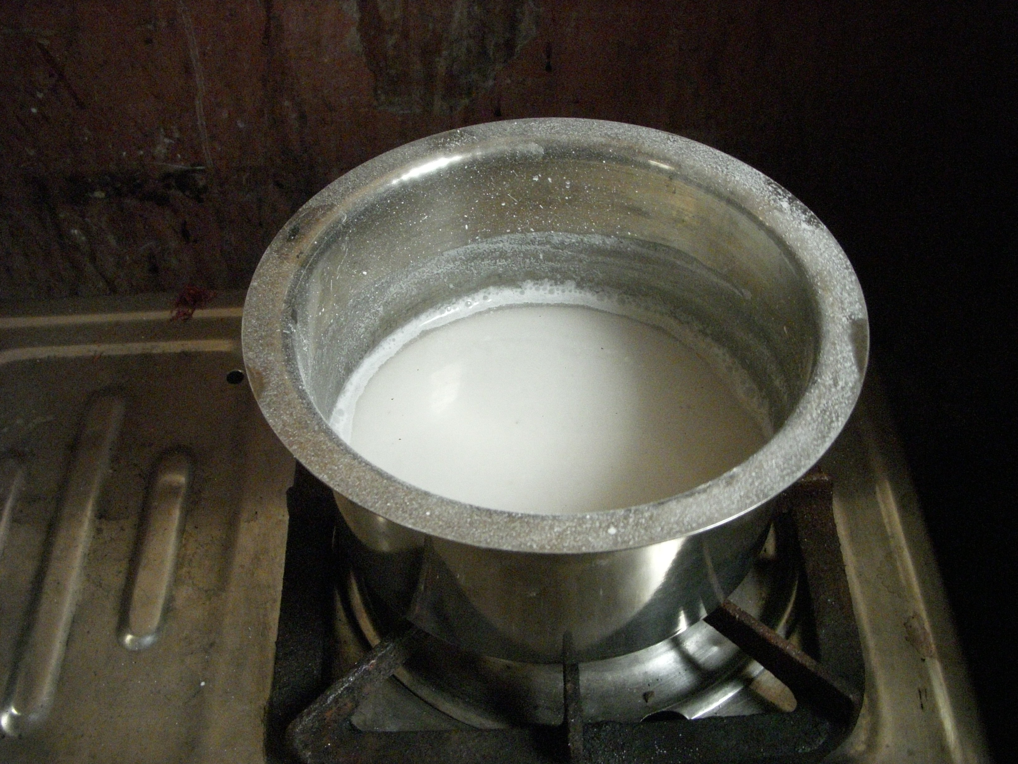 Limewater